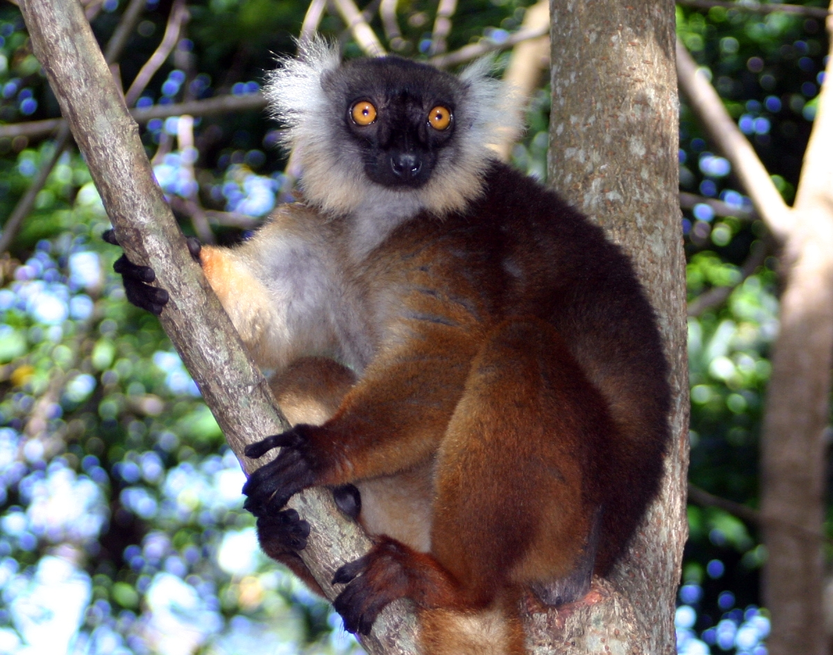 Female Black Lemurs,Eulemur macaco. The black lemur is one of 28 species of lemurs, which are relatives to monkeys and apes and is so called True lemur. The black lemur got its name from a male coloration 64px, which is black, while female is brown. The difference in the colors between male and female black lemurs is unique for lemurs. The image was taken at Madagascar